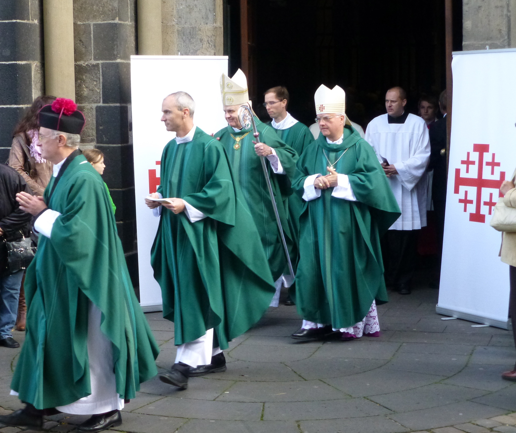 Order of the Holy Sepulchre, Investiture in Dusseldorf-Neuss (2012)